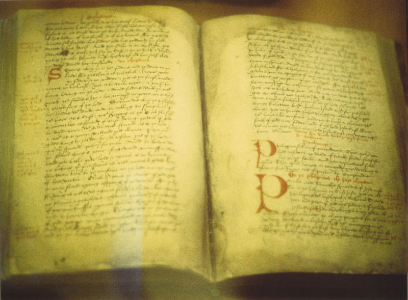 Thomas L. King took the photograph in the British Museum in the Bible room in the fall of 1975 with a Pentax Spotmatix II, using natural light and ASA 400 color slide film. An 8x10 print was made of the bible. The bible is in an inert atmosphere in a glass case.